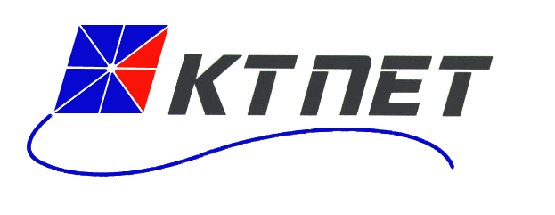 Logo of KTNET; Korea Trade Network Limited Company.